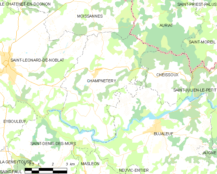 Map of French municipality Champnétery